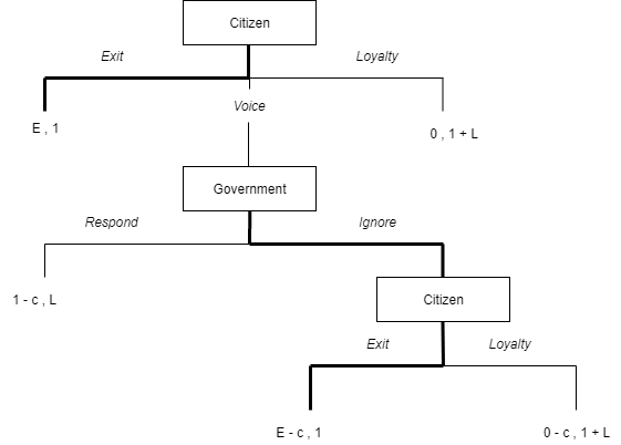 draw.io